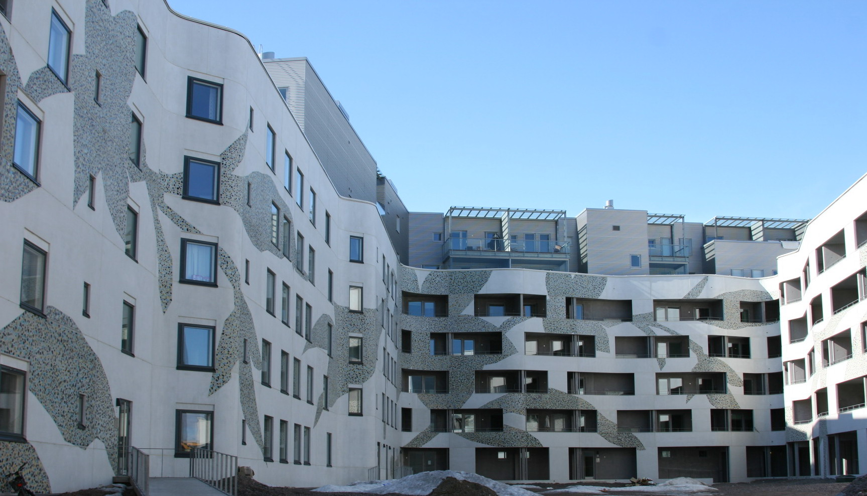 Arabianranta housing project coutyard, Lontoonkuja, Toukola, Helsinki, Finland. The mosaic on the concrete wall panels is made of waste porcelain from Arabia porcelain factory in the area. The cement used on the wall panels is white blended cement. The inner yard facade is of free form.